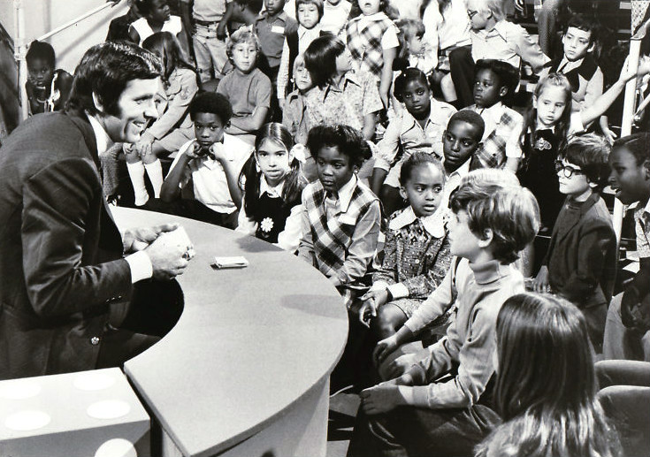 Publicity photo of basketball great Jerry Lucas as he hosted an ABC-TV children's special in 1972.